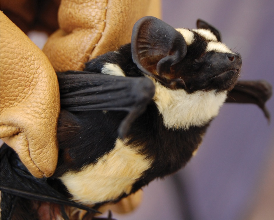 Niumbaha superba live in profile.